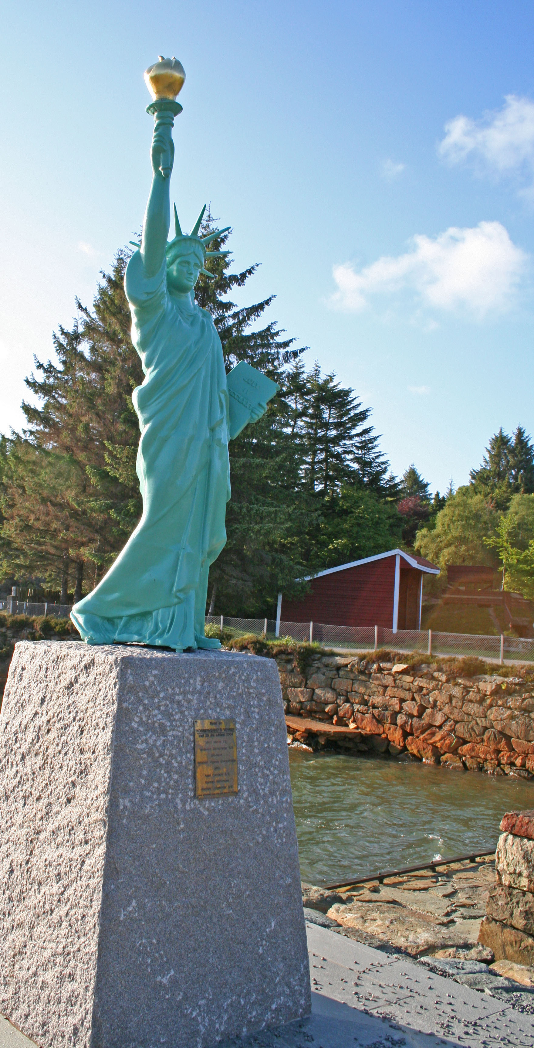 Model of Statue of Liberty. Visnes, Rogaland, Visnes Copper mine, Norway. N59 21.173 E5 13.161, WGS84